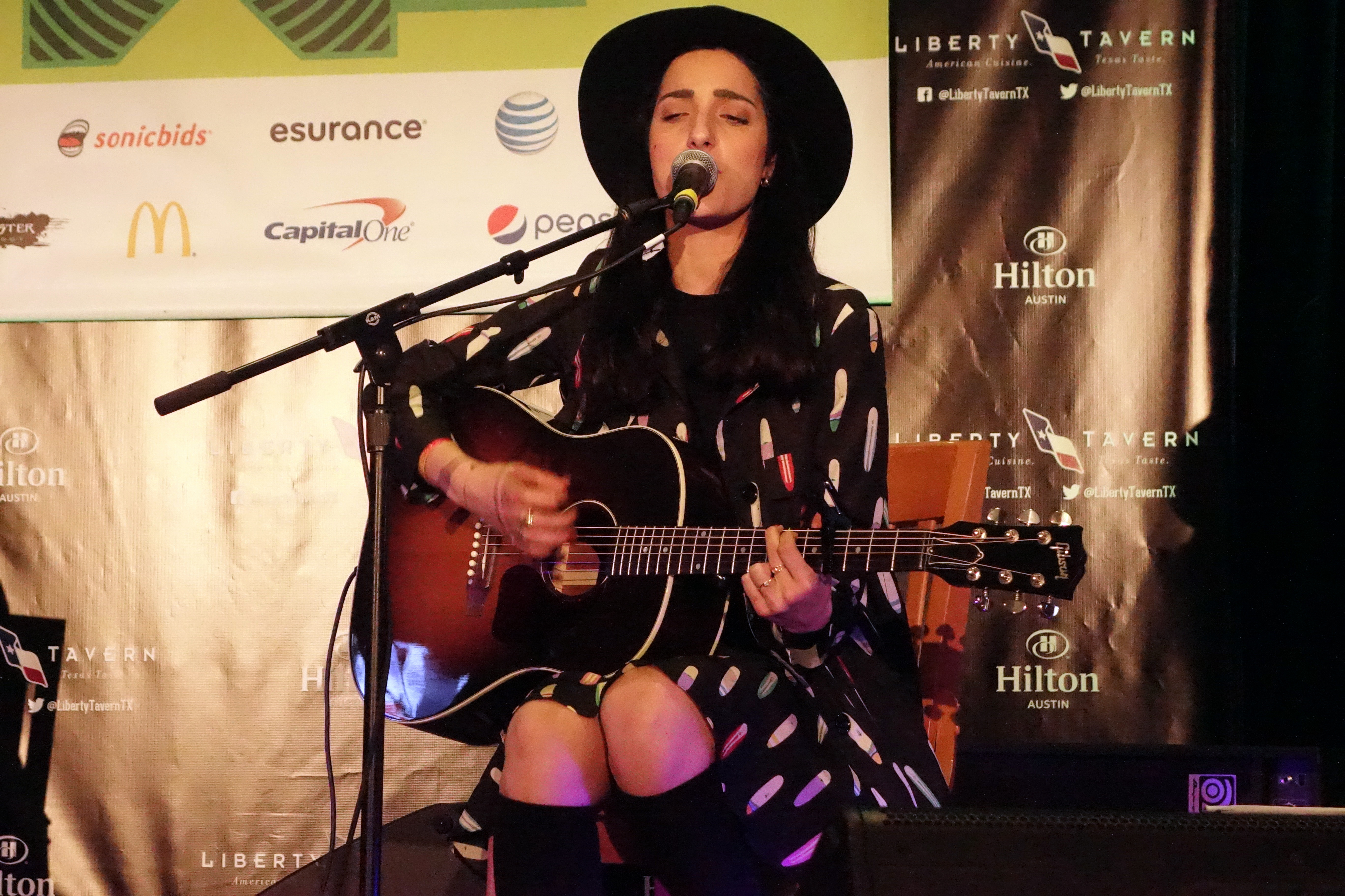 Levante @ SXSW 2015, Hilton Liberty Tavern